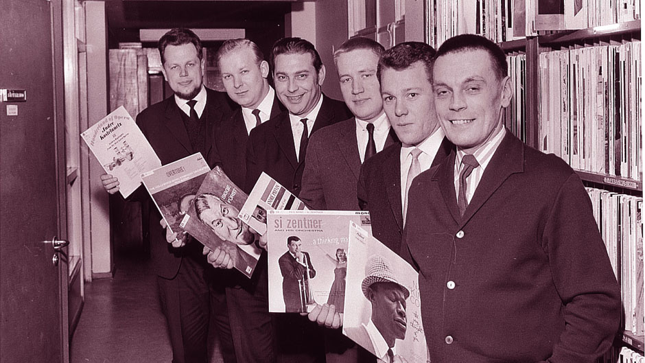 Photograph of music editors of Yleisradio. From left to right: Ylermi Kosonen, Raimo Henriksson, Sten Ducander, Jarmo Korhonen, Oki Pikkarainen, and Erkki Melakoski